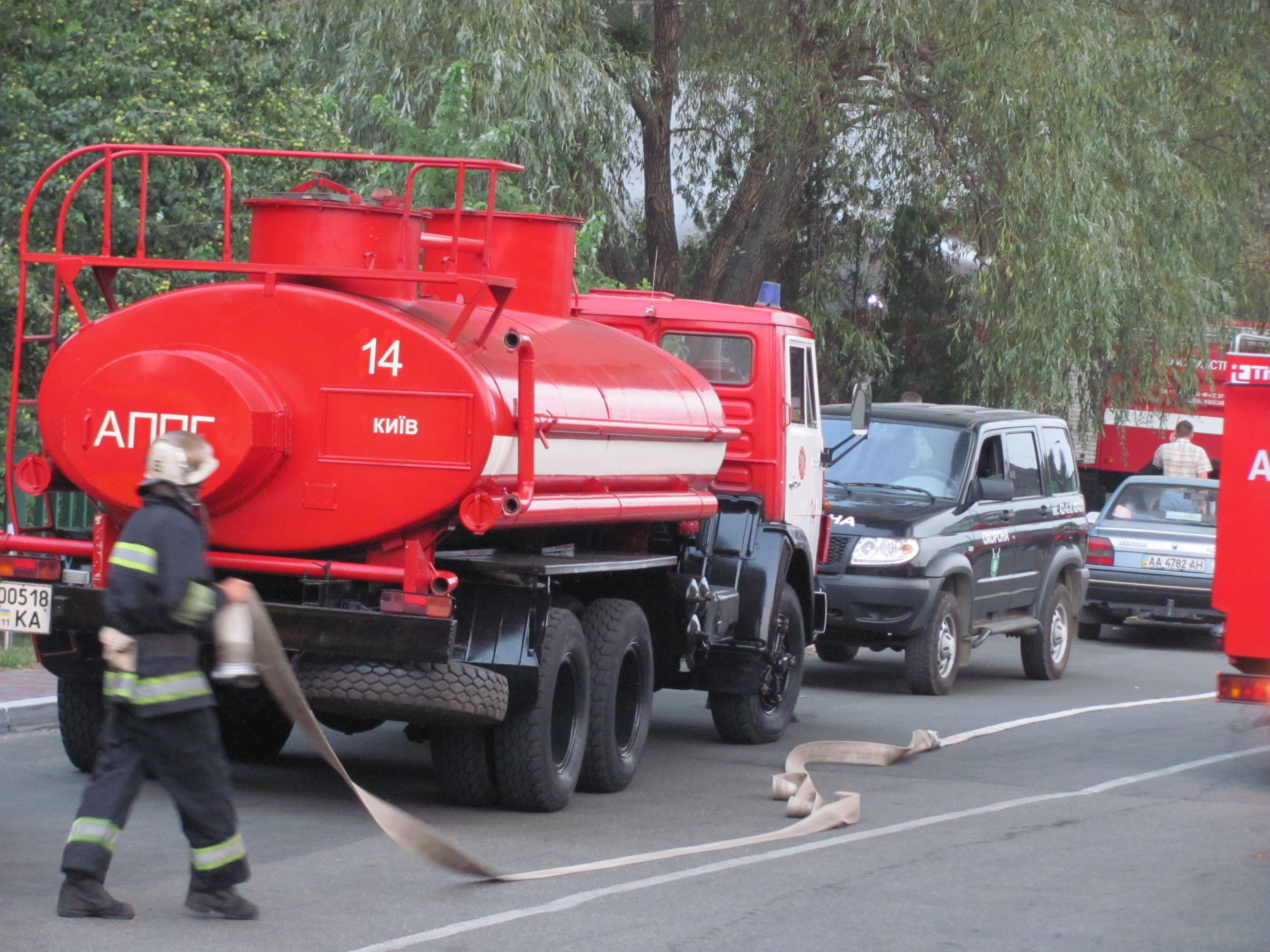 KamAZ firen engine in Kiev, Ukraine, 2010.